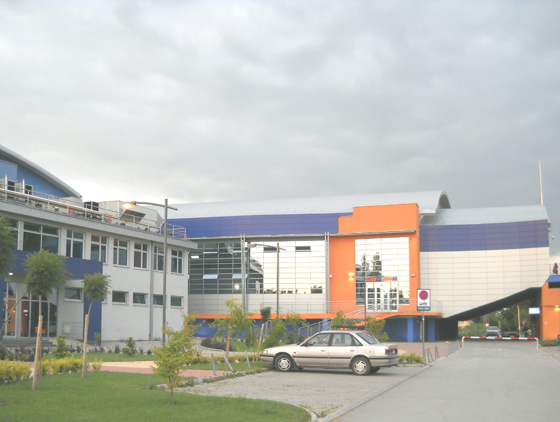 Sports center in Slana Bara neighborhood in Novi Sad.